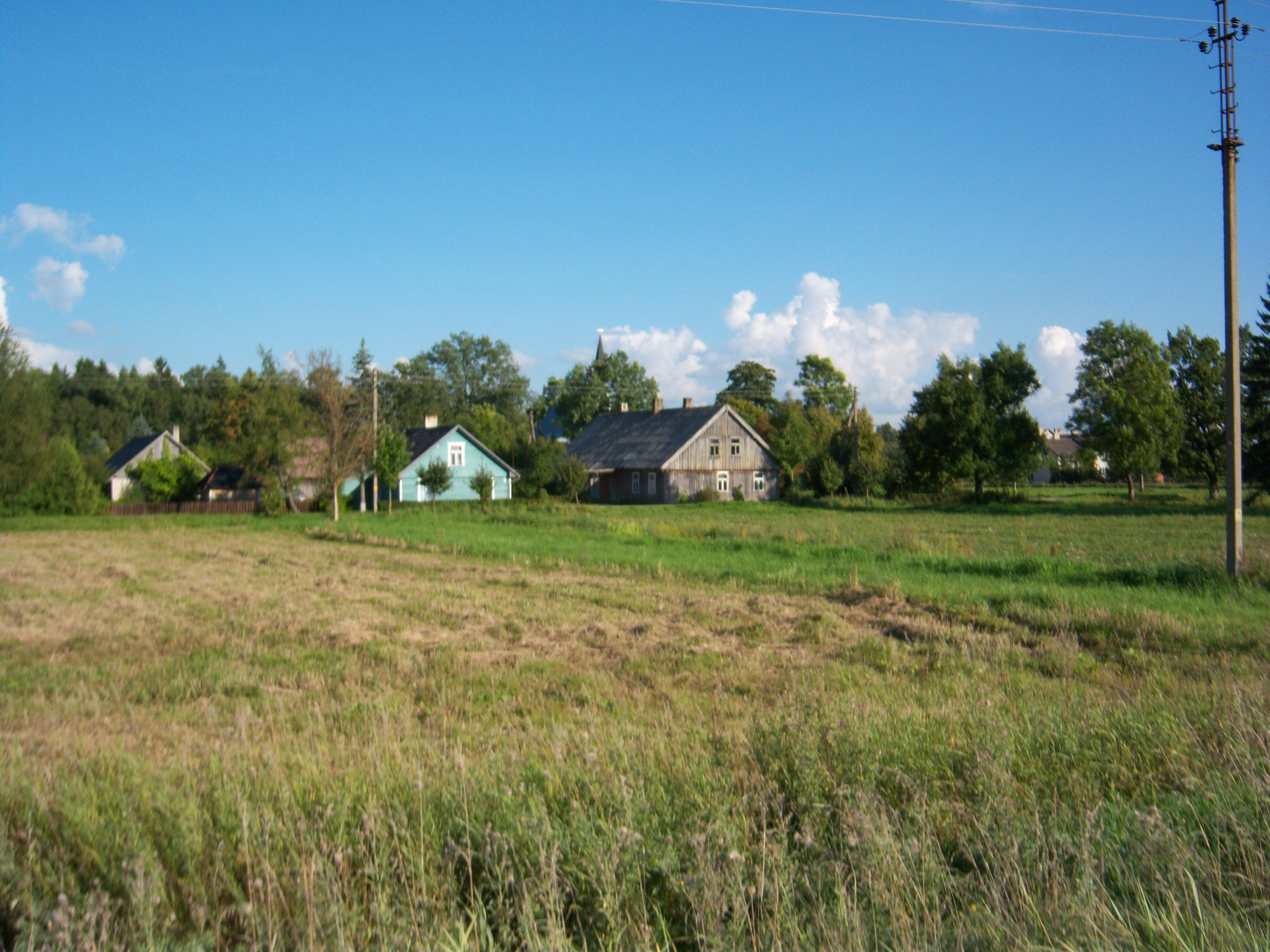 Mikoliškiai, Kretinga District, Lithuania